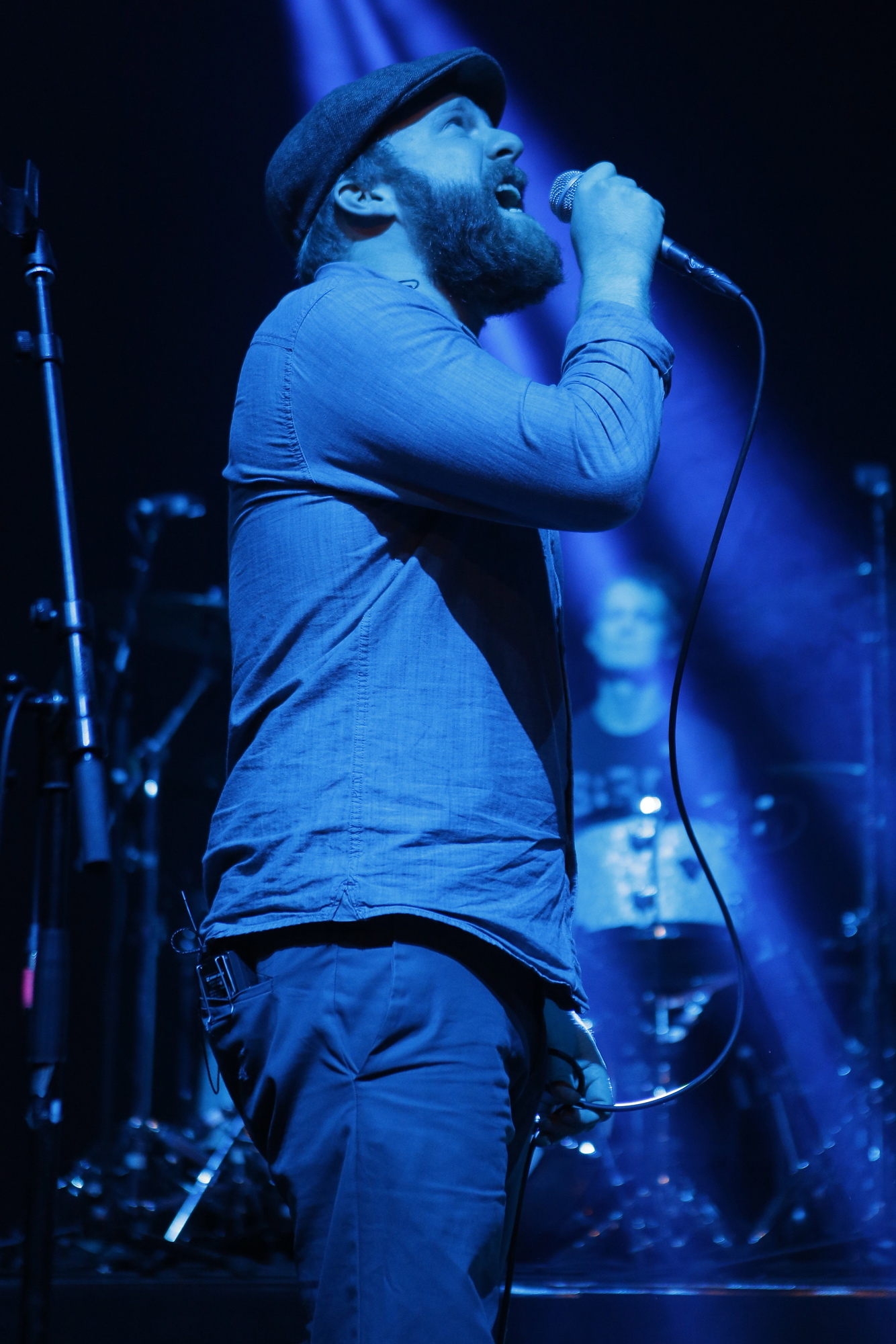 The british singer-songwriter Alex Clare performing on 28th of January 2013 at Capitol Offenbach.